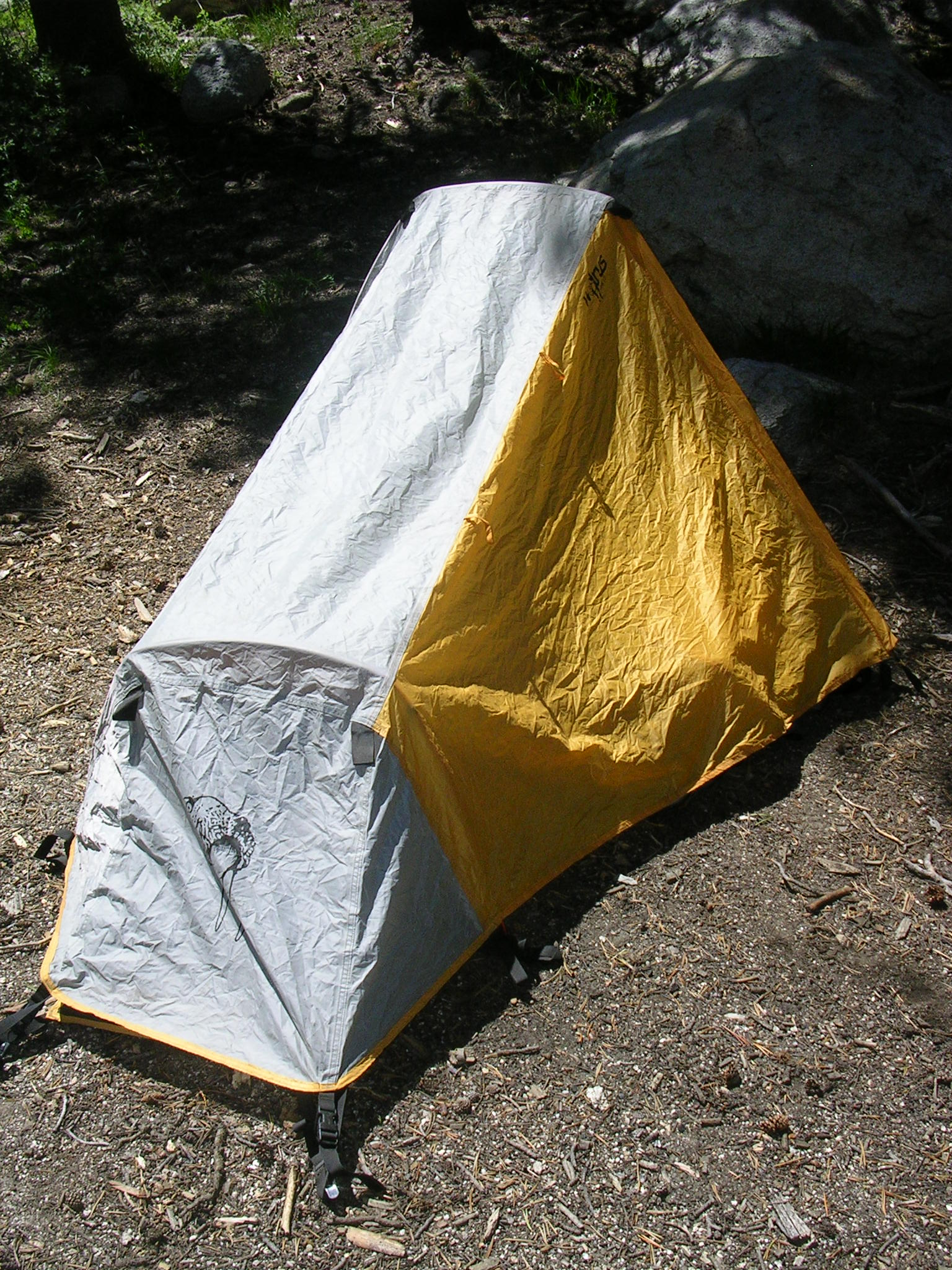 A one-man backpacking tent, covered with a rainfly. The yellow part of the rainfly at right is the vestibule. This particular tent is the Zoid 1.0, made by the now-defunct Walrus company.